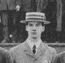 Challenor. Detail from :Image:WestIndiesTeam1906_Cricket1913.jpg